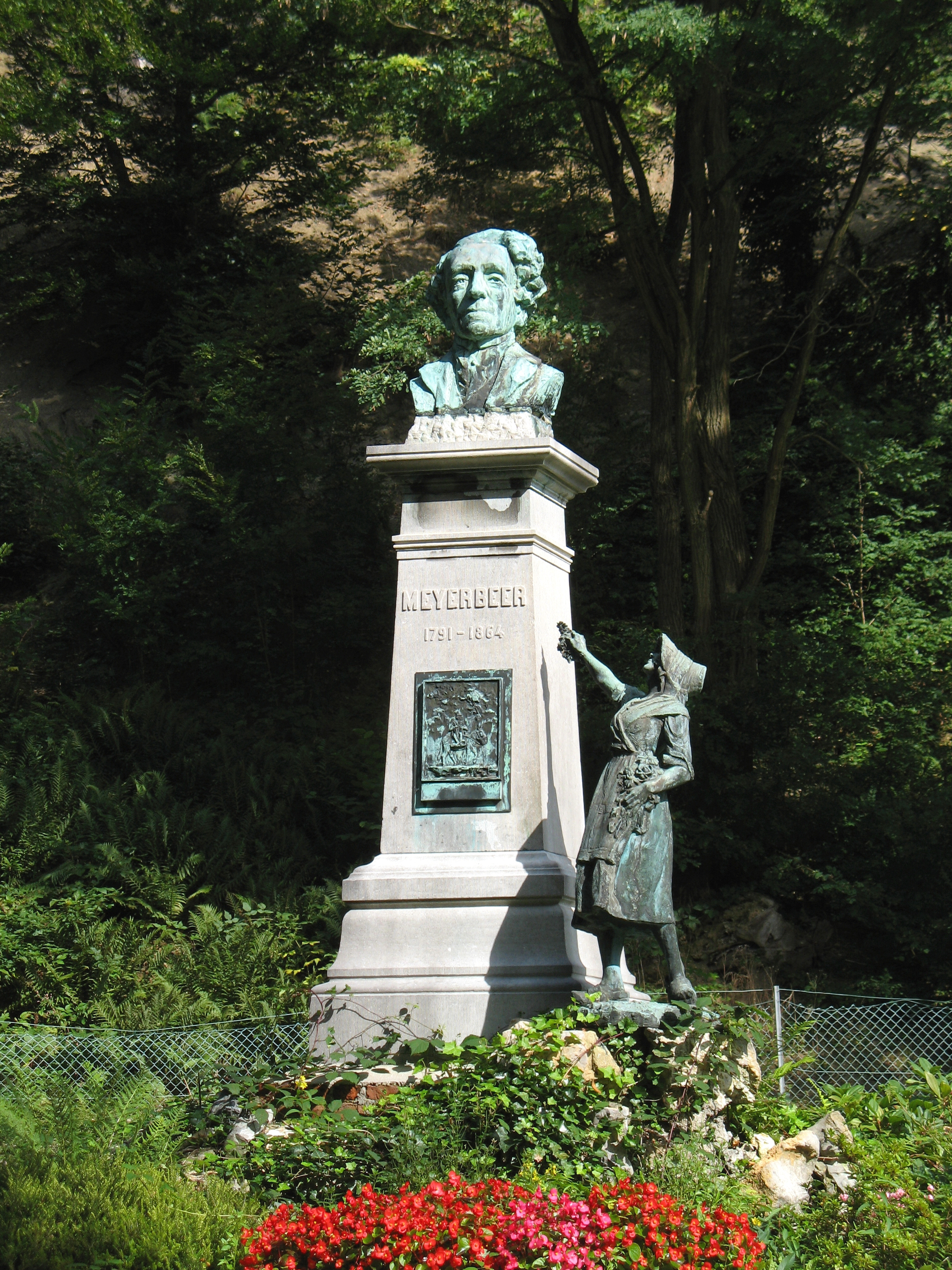 The statue of the composer Giacomo Meyerbeer at Spa, Belgium. Author : Charles GIRARD. Donated to the city of Spa by its Mayor, Baron Joseph Crawhez.